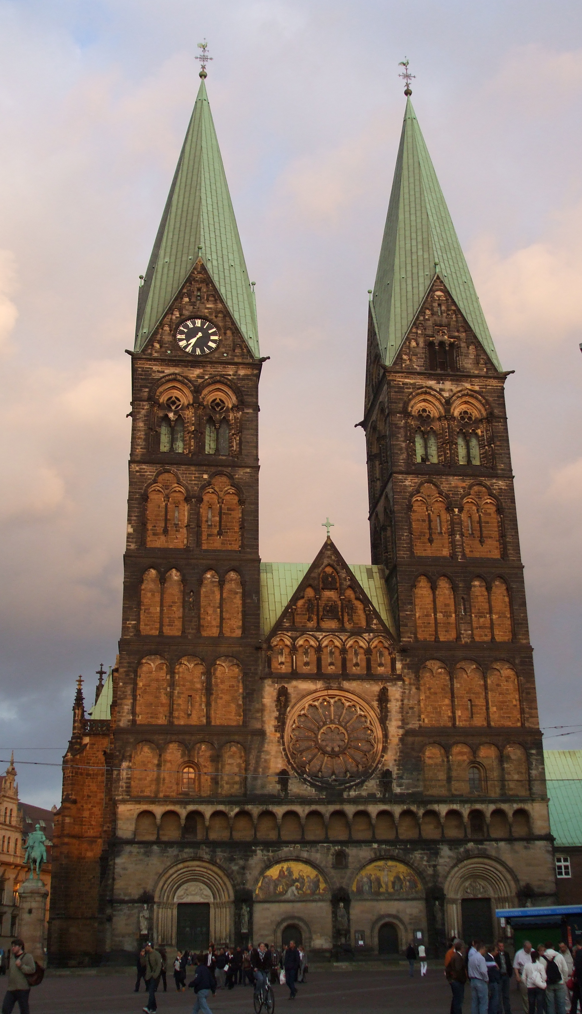 Bremen Cathedral